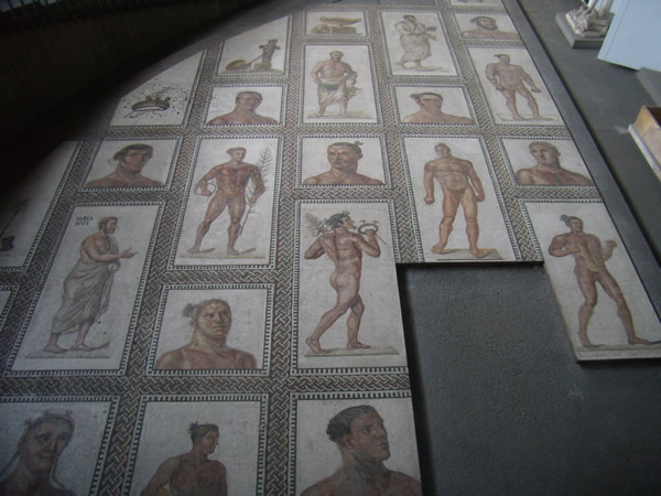 Mosaic, found in the Caracalla thermes in Rome, now Vatican museum